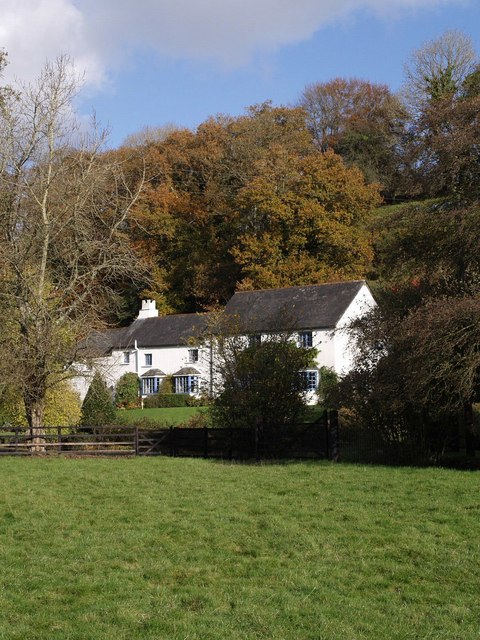 Boyton Mill. A view of 606413 from Northcott Footpath 3 as it crosses a field between the mill's tailrace and the River Tamar.